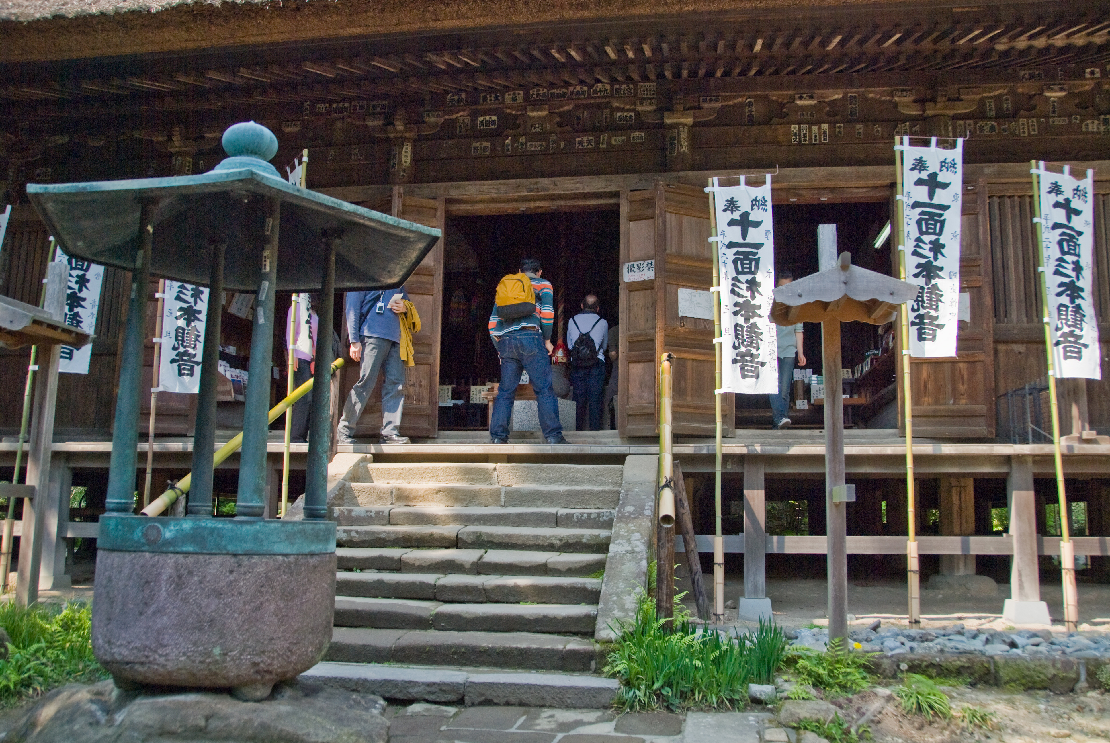 the Main Hall at Sugimotodera, the oldest temple in Kamakura